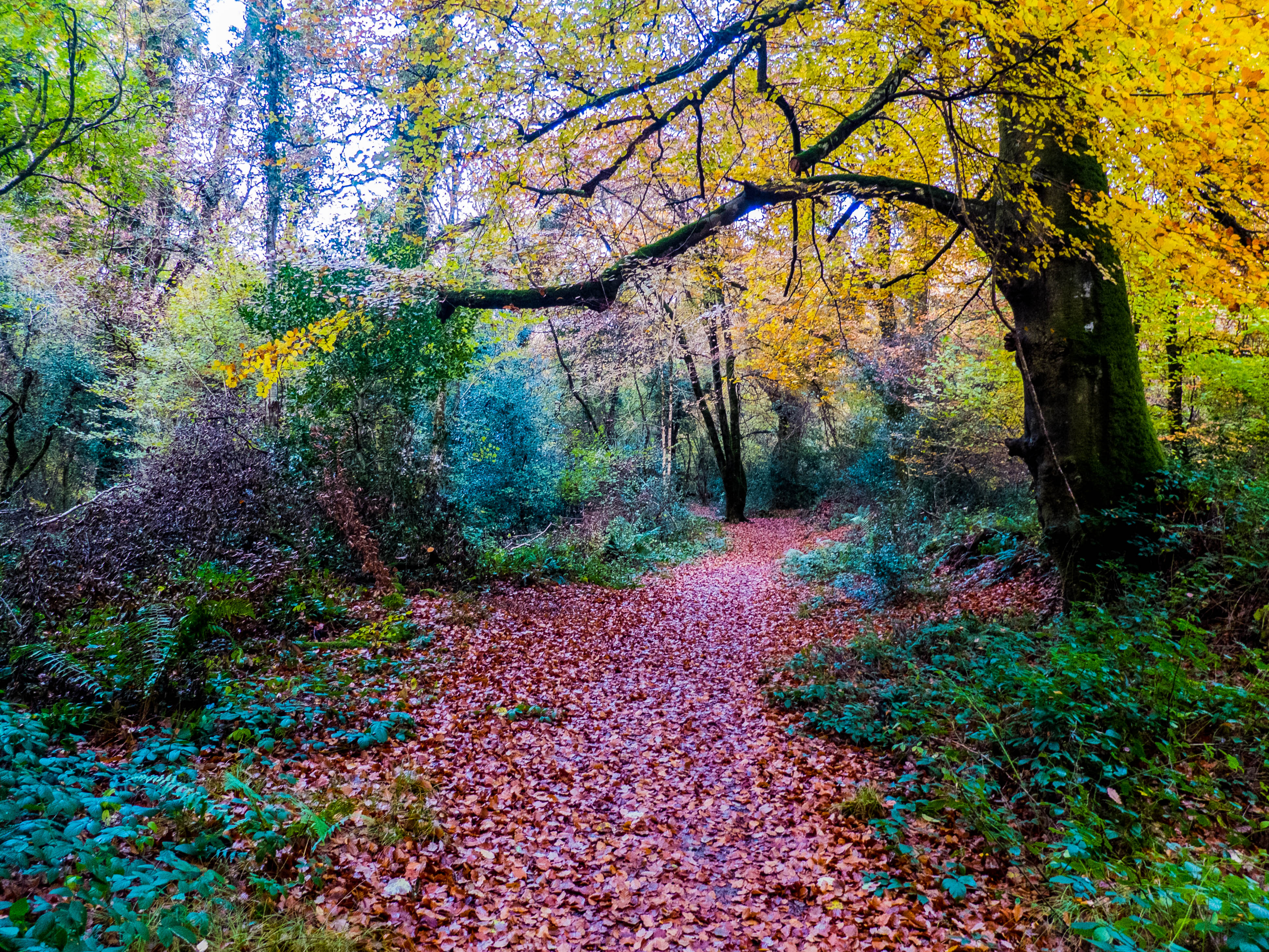 Tomnafinnoge Woods in Autumn 2016